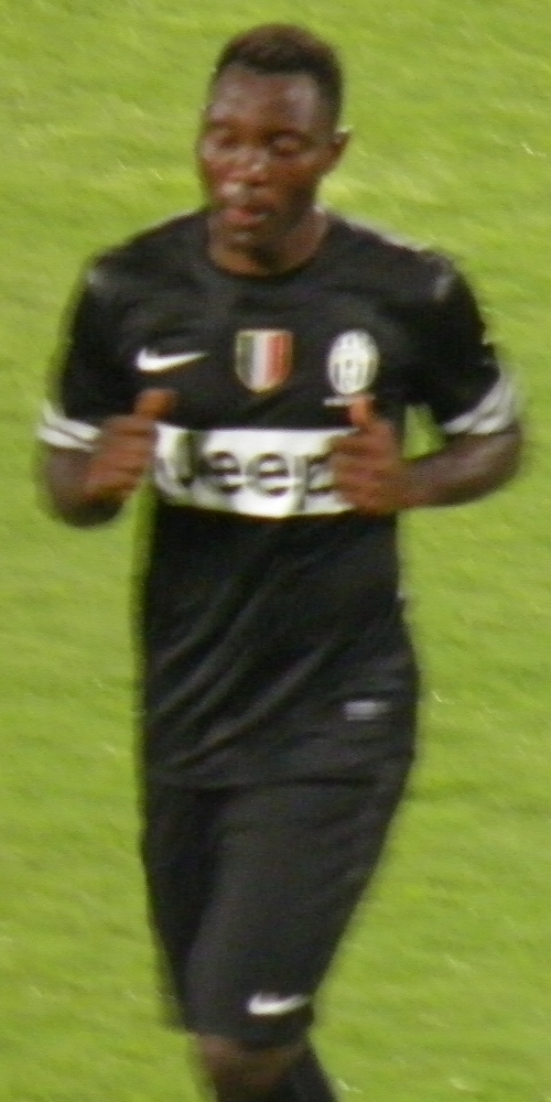 Kwadwo Asamoah during the friendly match Juventus-Málaga played in Salerno